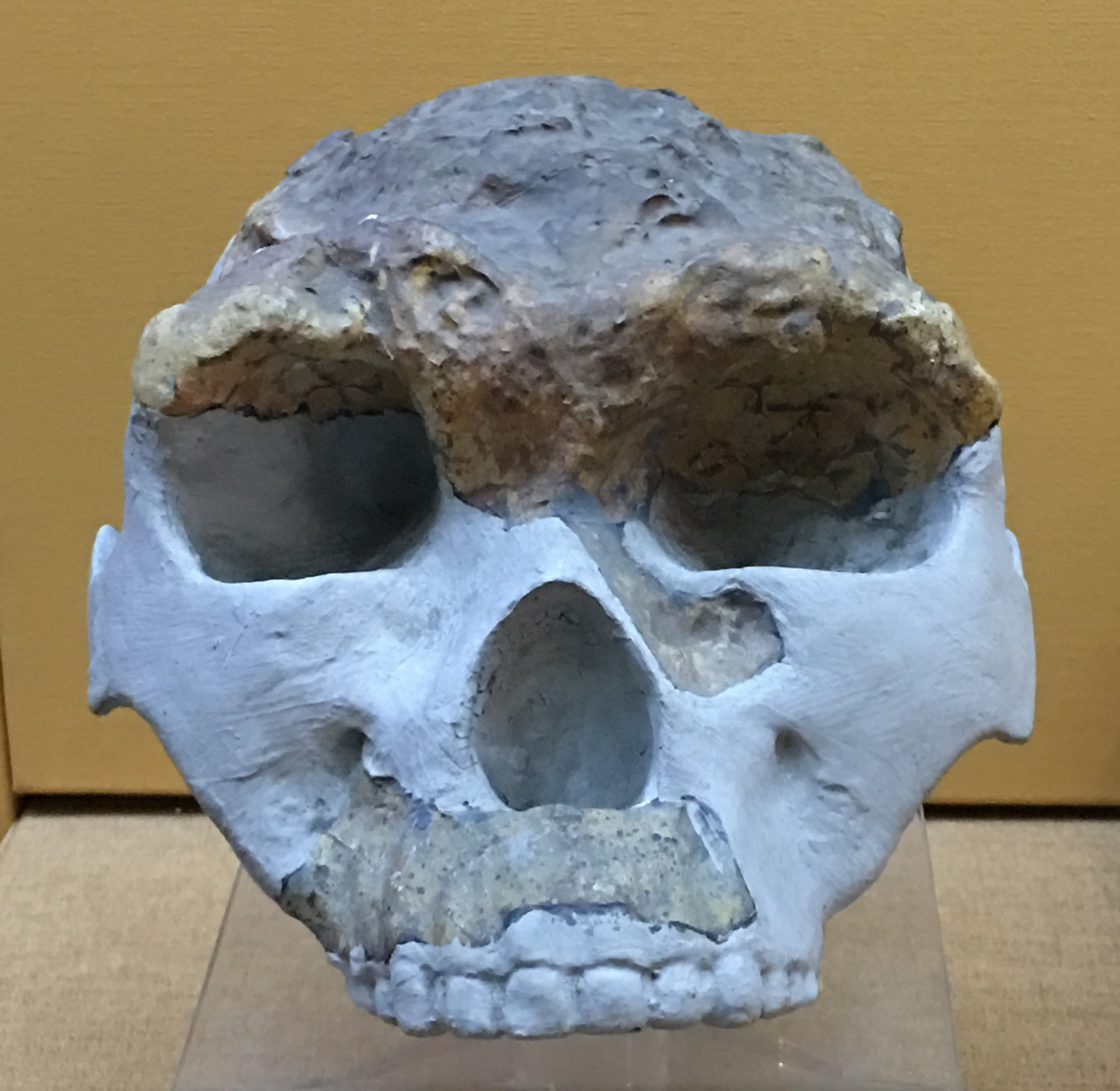 Hominid fossil reconstruction in the Beijing Museum of Natural History - China, July 2017.